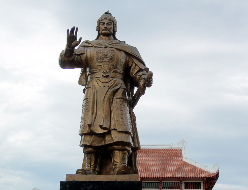 Statue of Nguyen Hue stands in Emperor QuangTrung museum. TaySon District BinhDinh province VietNam.